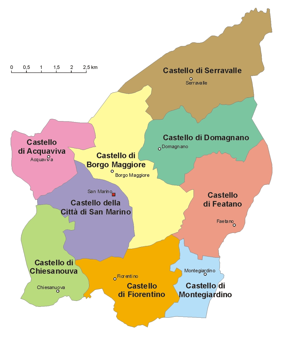 Administrative divisions of San Marino. By Aotearoa